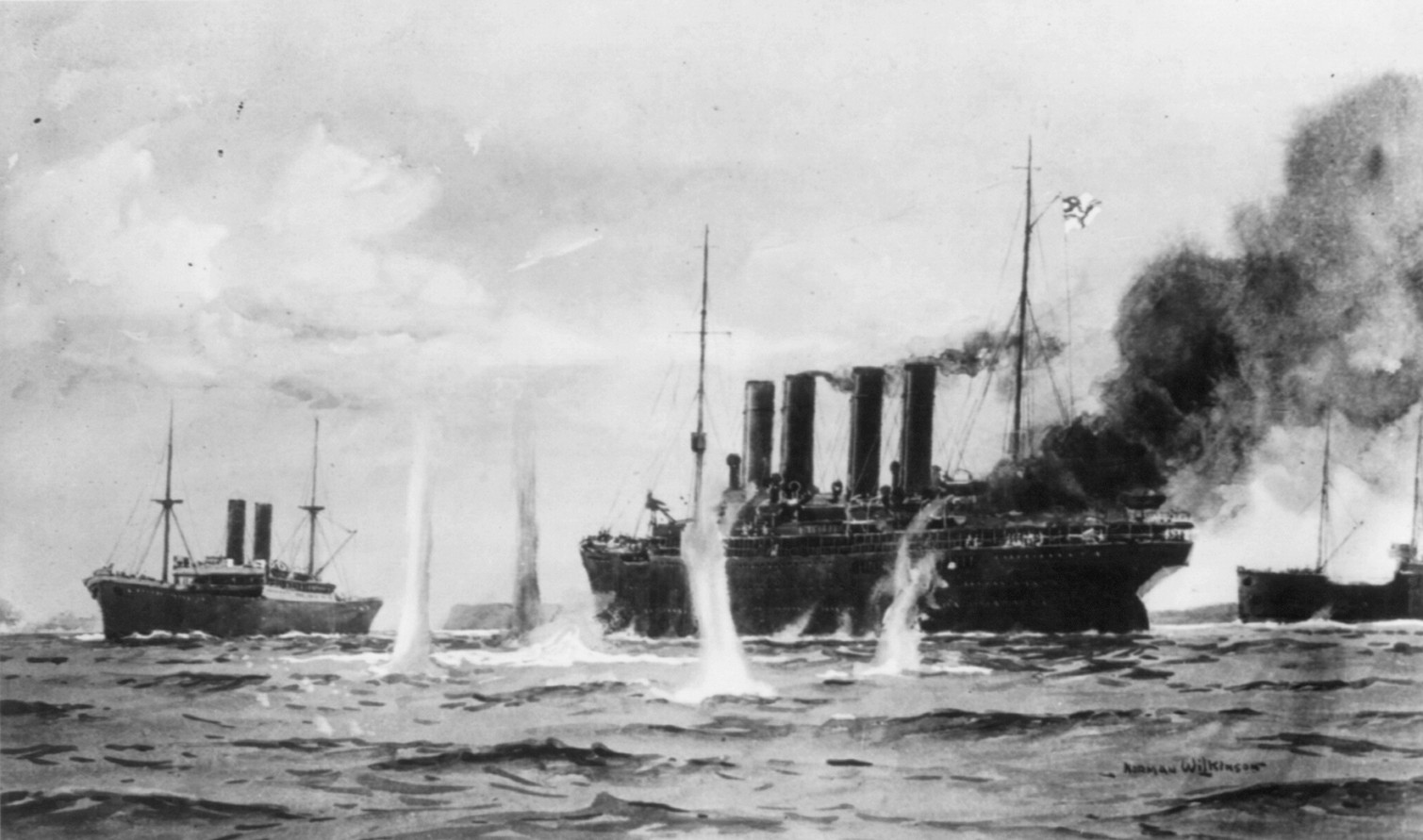 Painting of the fight between the German auxiliary cruiser SS Kaiser Wilhelm der Grosse and the British cruiser HMS Highflyer on 26 August 1914. The German ship was caught refuelling off the shore of the then Spanish colony of Rio de Oro in western Africa and was sunk or scuttled after her ammunition ran out.